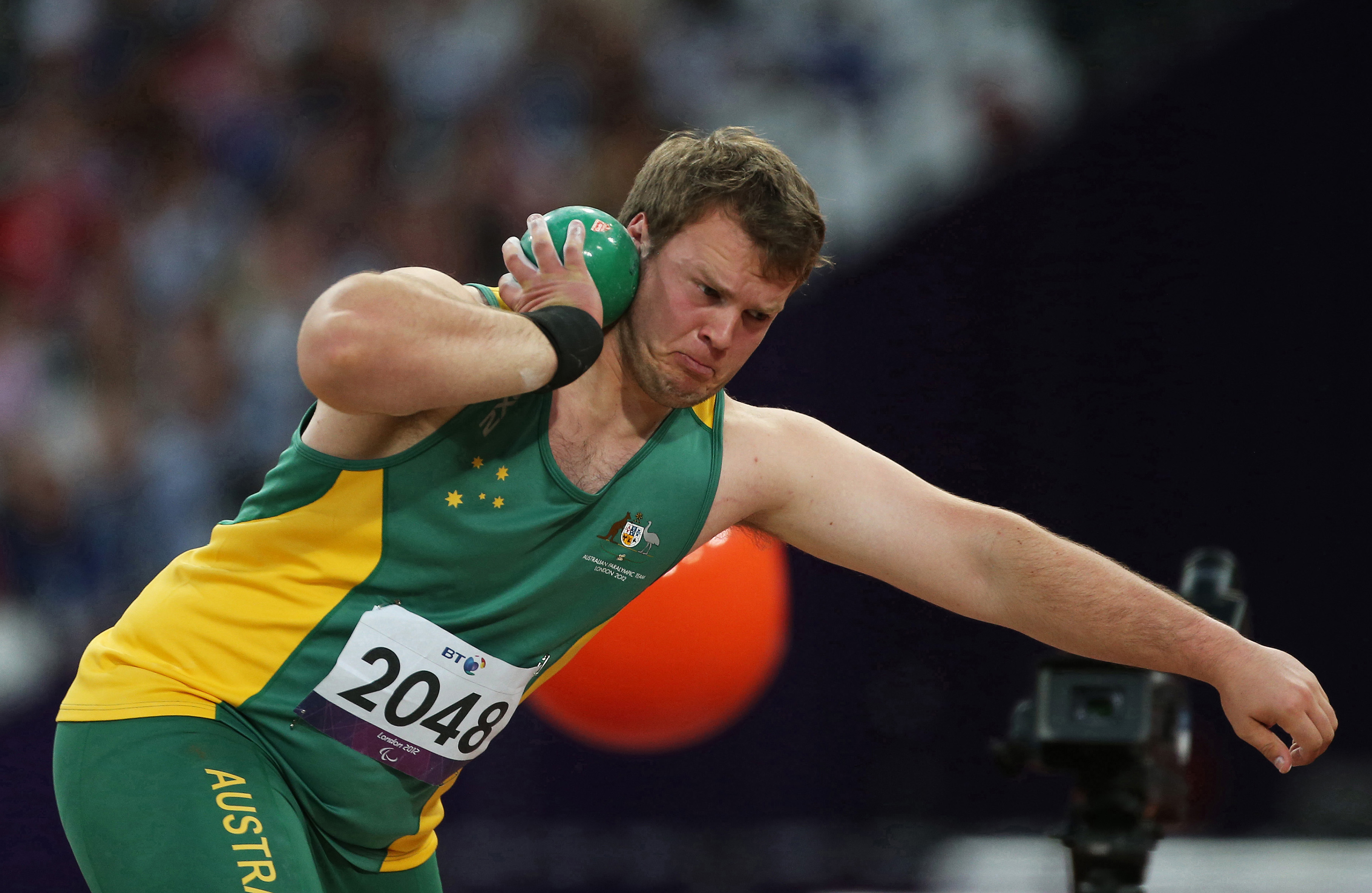 Photograph of Australian Paralympic team member Lindsay Sutton at the 2012 Summer Paralympic Games in London